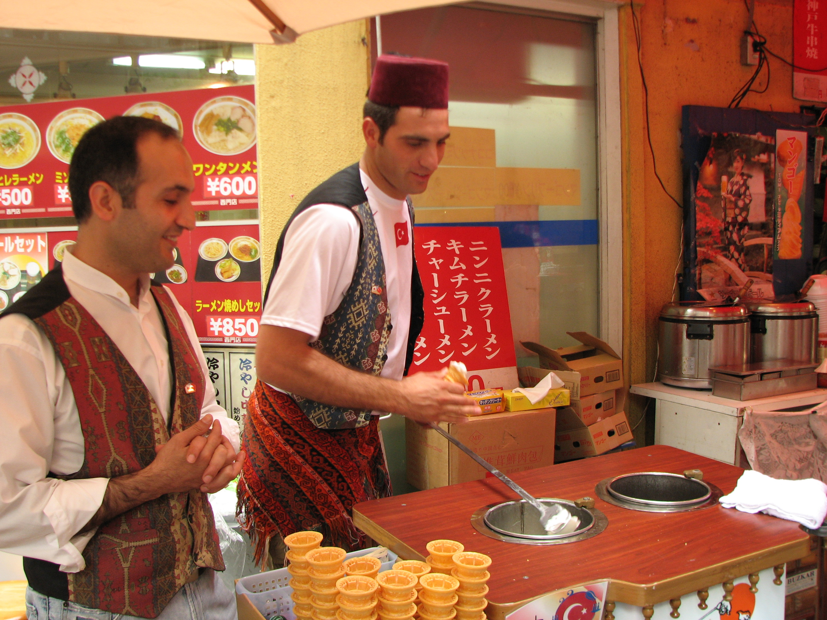 The Turkish ice cream vendors - these guys were having lots of fun with their job. And the ice cream was delicious....